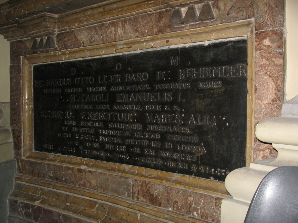 Iscrizione sulla tomba del maresciallo Rehbinder.